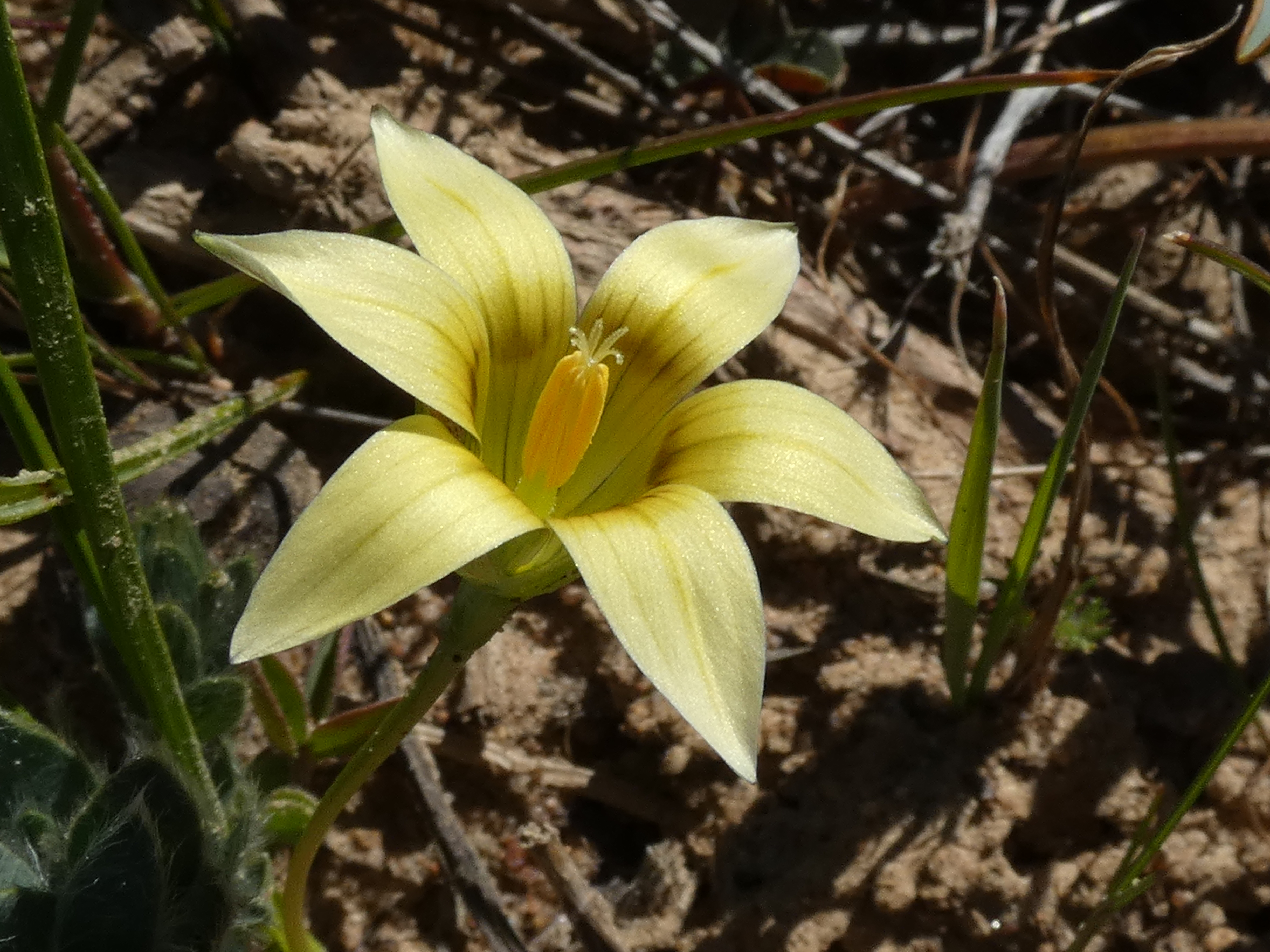 Romulea hirta, photographed on a farm called Avontuur, north-west of Nieuwoudtville